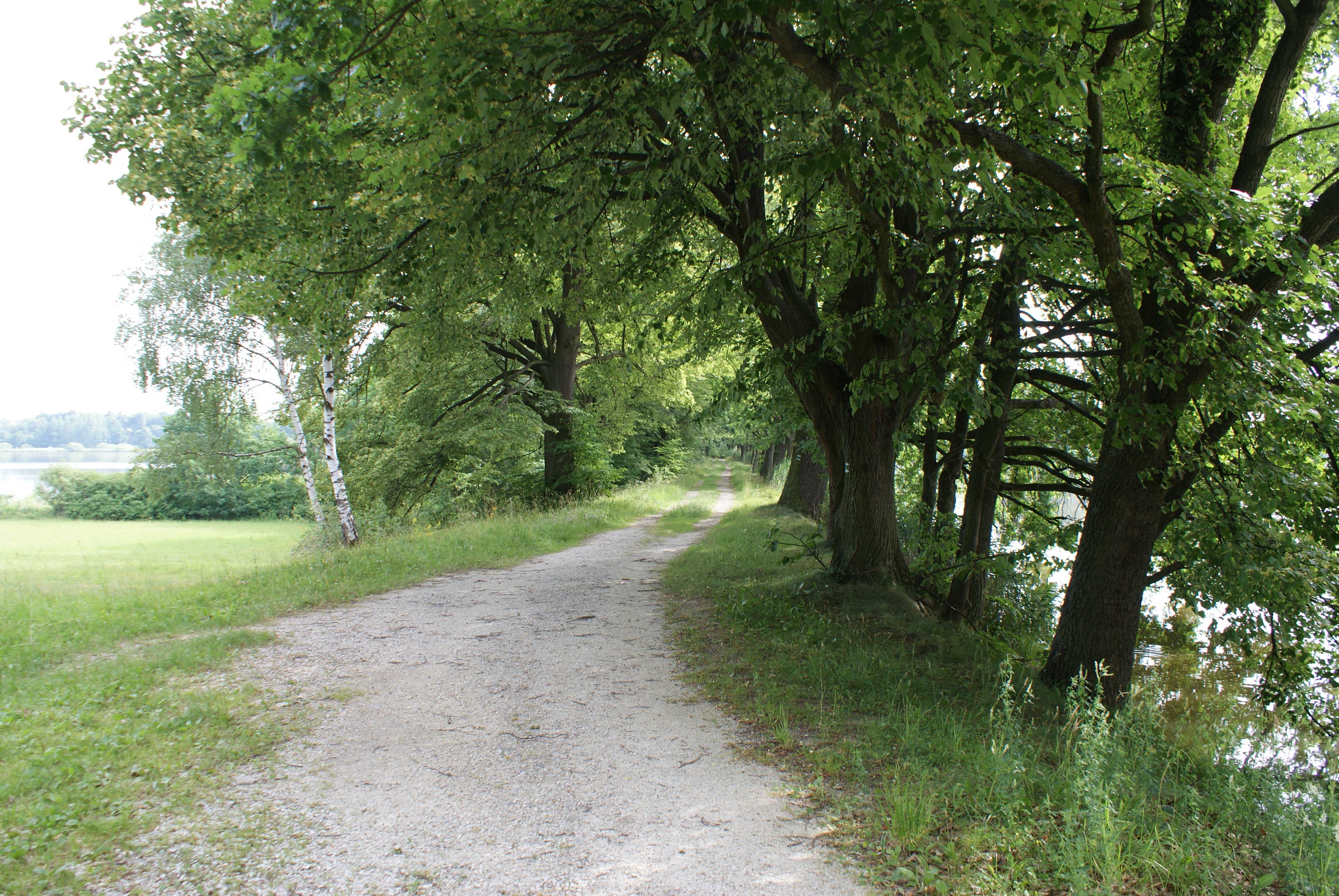 Battle of Sudoměř area near village of Sudoměř, Strakonice district, Czech Republic.